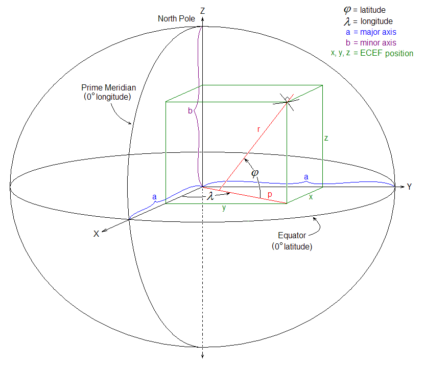 Diagram of Earth Centered, Earth Fixed coordinates in relation to latitude and longitude.